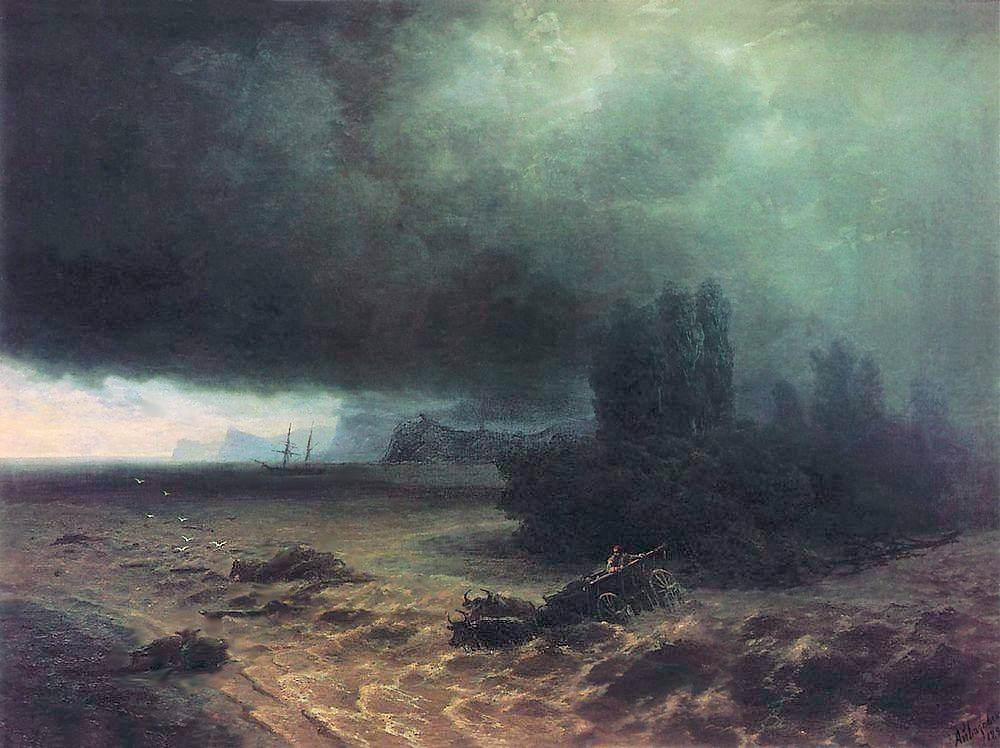 Downpour in Sudak.